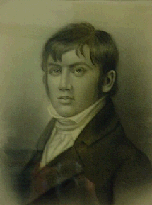 Thomas Stockton of Delaware (1781-1846) by Ellen L. B. Wendell (attributed), Crayon; 20" x 24", ante 1915. Hall of Governors Portrait Gallery. Courtesy of Delaware Department of State, Division of Historical and Cultural Affairs, Collection of the Delaware State Museums.